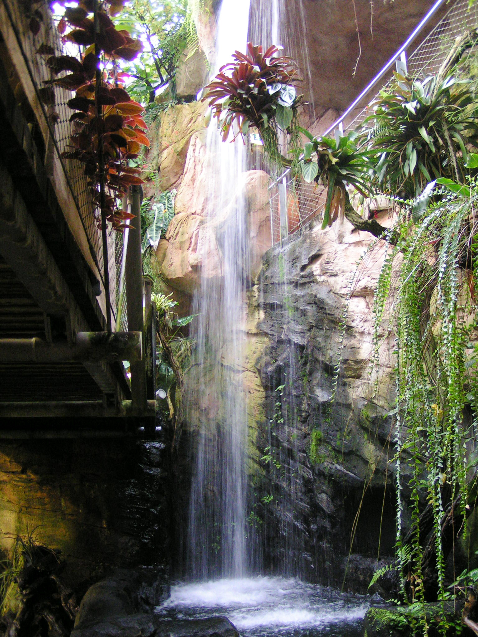 Waterfall in the former "Regenwaldhaus" (rain forest house), Hanover, Germany